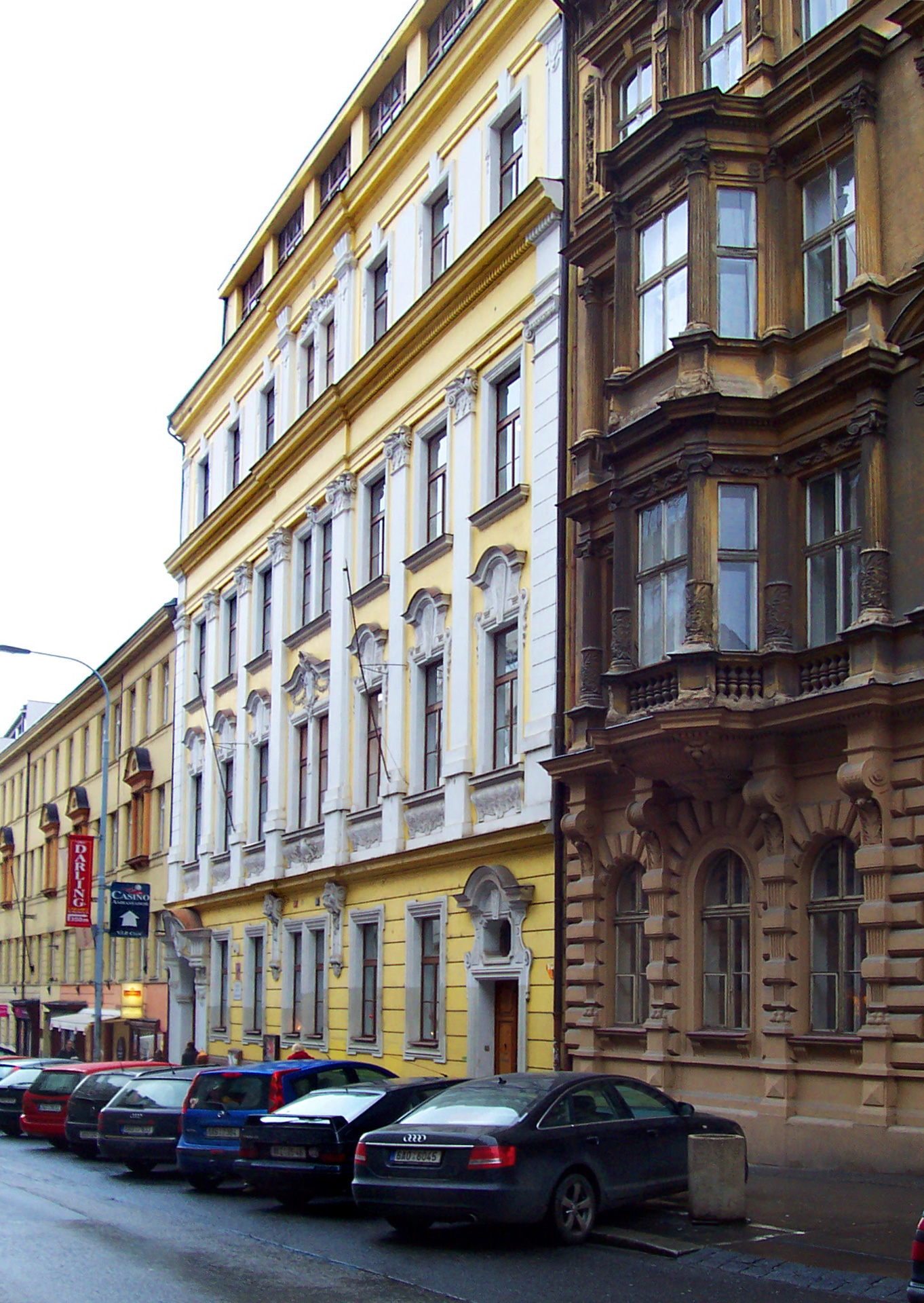 Štěpánská street in New Town, Prague